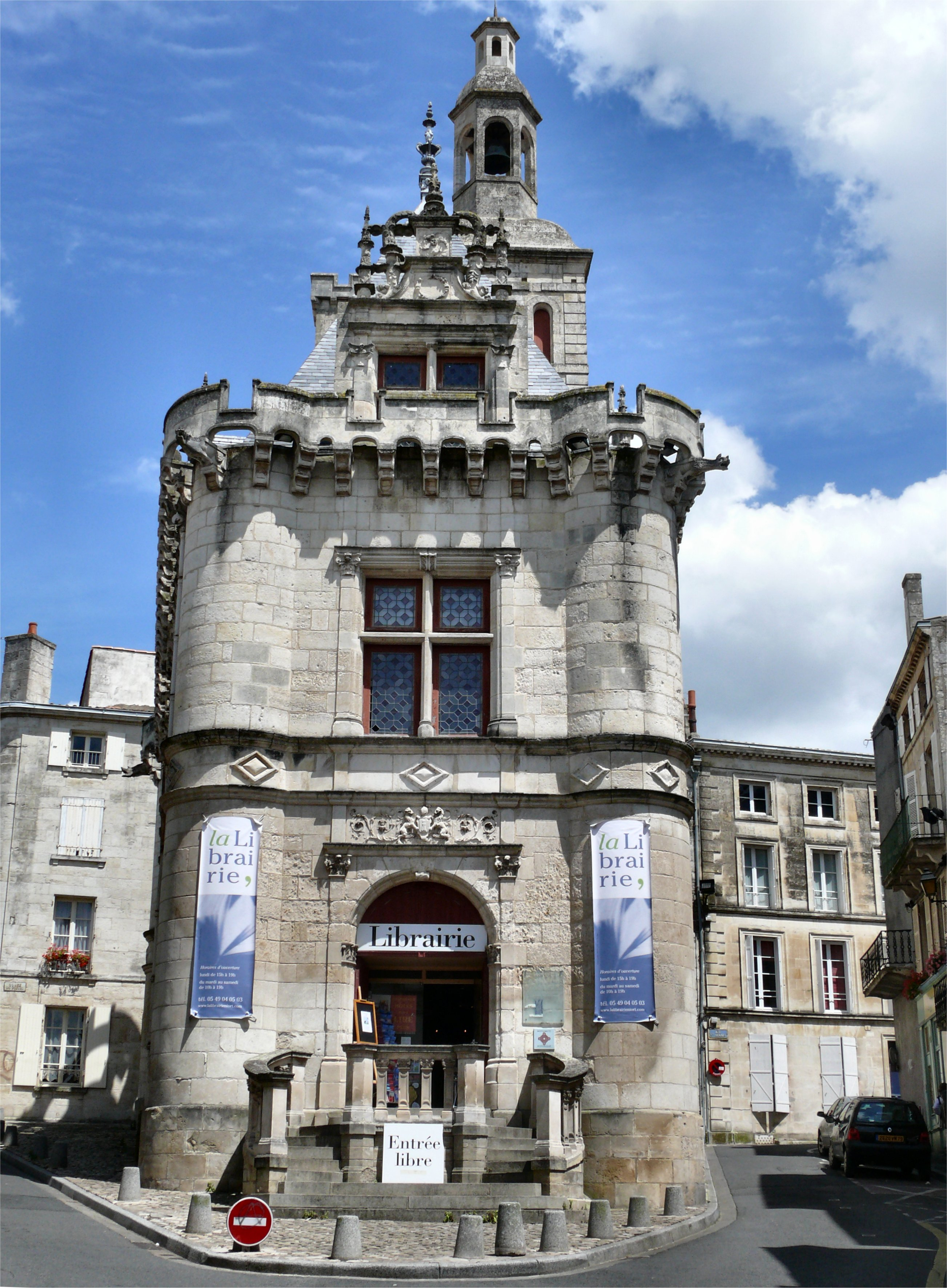 The ancient Pilori building at Niort. Builded in Middle age, it was transformed during the renaissance. Former city hall, it actually hosts a bookshop but will soon host an artistic galery with expositions. Niort, Deux-Sevres, Poitou-Charentes region, France, May 2008